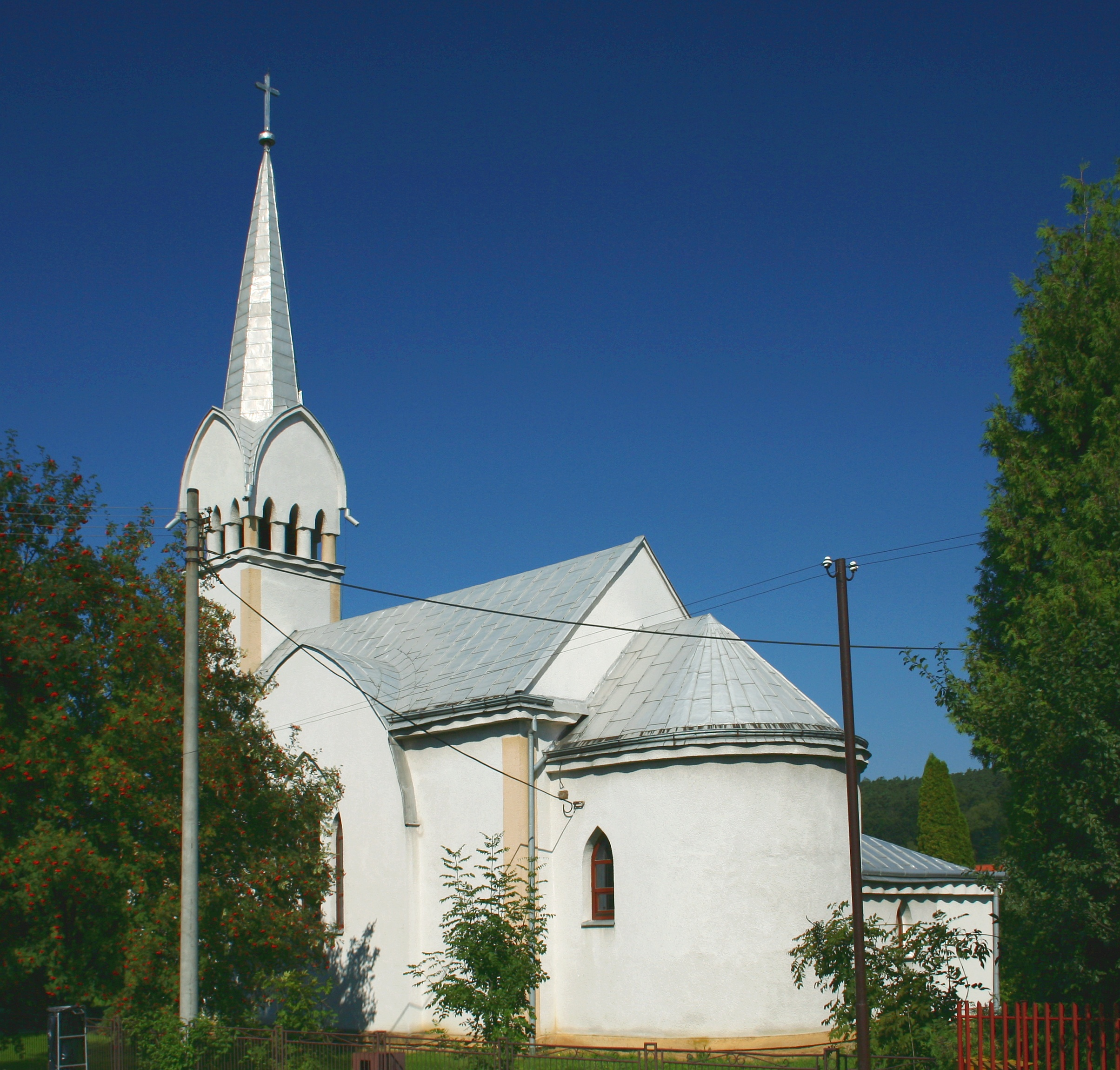 church in Hudcovce, Slovakia